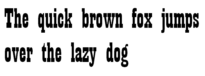 English pangram in typeface Playbill